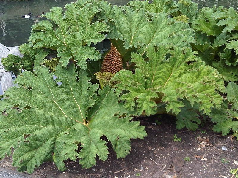 Chilean rhubarb (Gunnera tinctoria) leaves and an inflorescence in WWT London Wetland Centre, England.